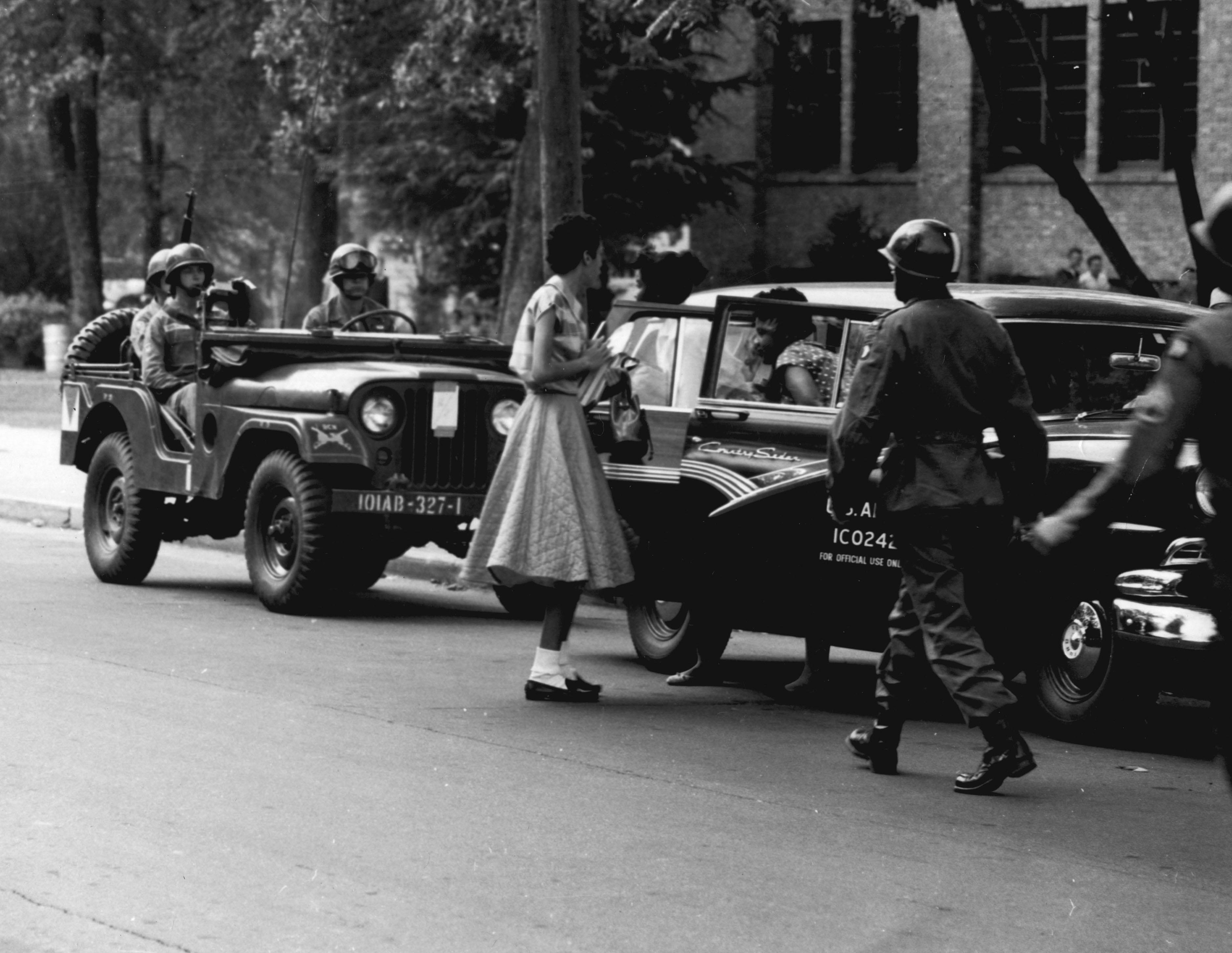 From flickr: arkansas Soldiers from the 101st Airborne Division escort African-American students to Central High School in Little Rock in Sept. 1957, after the governor of Arkansas tried to enforce segregation. Photo courtesy National Archives. Operation Arkansas